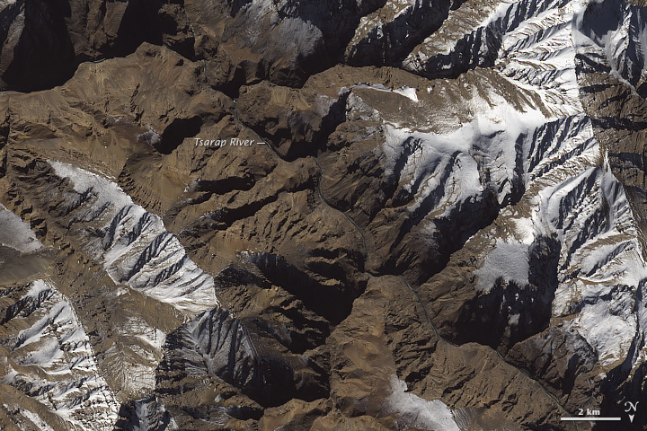 Image of Tsarap River before landslide from Operational Land Imager (OLI) on Landsat 8